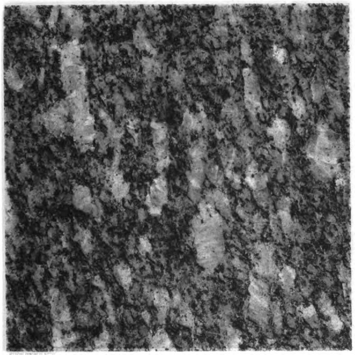 Plate XI of 1898 publication called Maryland Geological Survey Volume Two, with caption "GRANITE-PORPHYRY. Ellicott City, Howard County." Width is approximately 10.7 cm.